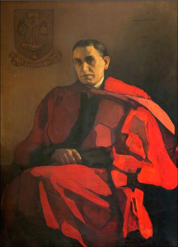 Edward Provan Cathcart (1877–1954), Professor of Physical Chemistry (1919–1928) and Professor of Physiology (1928–1947)